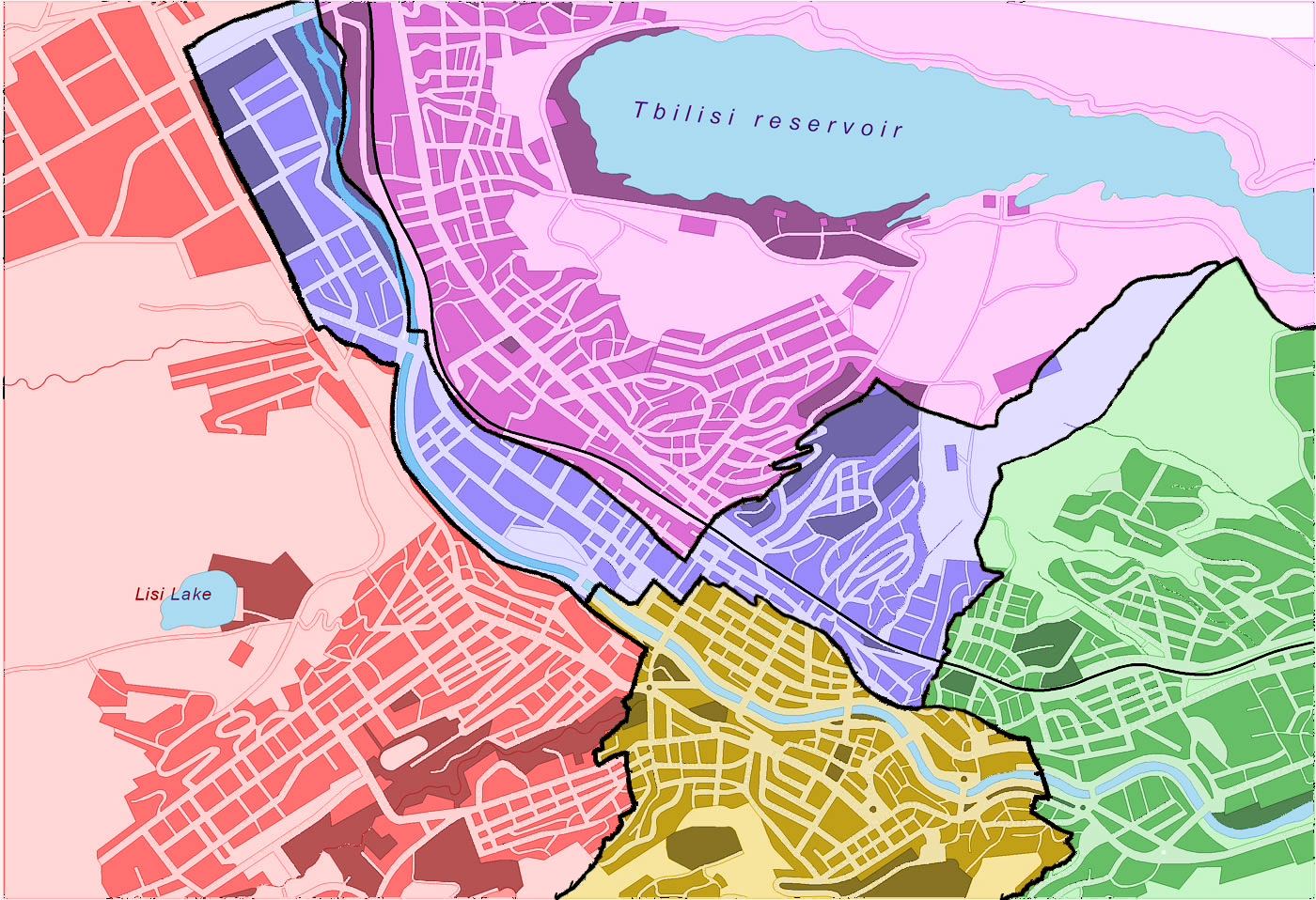 A detailed map of the central neighborhoods of Tbilisi, capital of Georgia.